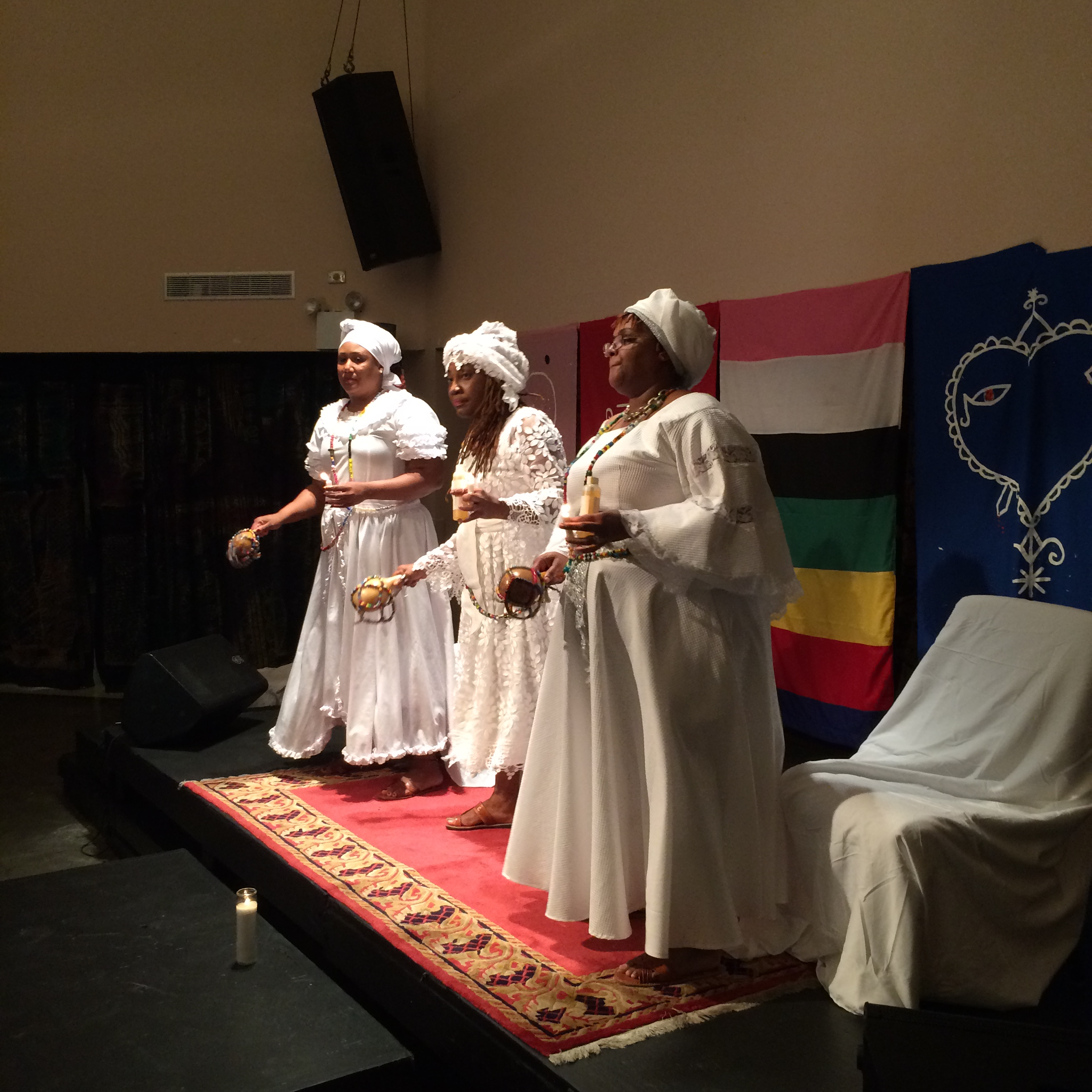 Swearing-in ceremony of the first ever GwètòDe's for the Haitian diaspora by Konfederasyon Nasyonal Vodouyizan Ayisyen (KNVA) held 2/25/2017 at National Black Theatre in Harlem NYC. GwètòDe's are the clergy of Haitian Vodou, representing the interests of Haitian vodouyizan in a specific geographic region. In this ceremony GwètòDe's were sworn in for the state of New York (Manbo Florence Jean-Joseph, pictured center), the state of Massachusetts (pictured left) and for Canada (Manbo Fabiola Abelard, pictured right). KNVA is a Haiti-based organization that designates the Ati National, the head of Haitian Vodou and all of the vodou clergy, for certification by the Haitian government. The Haitian Constitution of 1987 gave Vodouyizan the same rights as practitioners of other faiths.